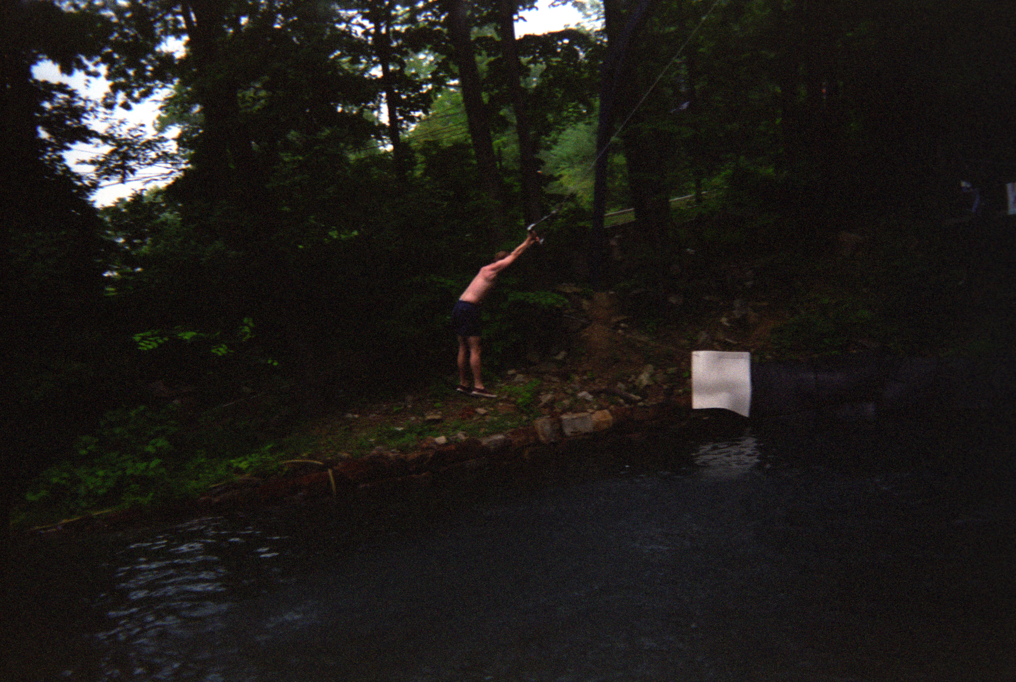 Taking the Tarzan swing into the really cold pool. Action Park, Vernon, New Jersey, August 1994